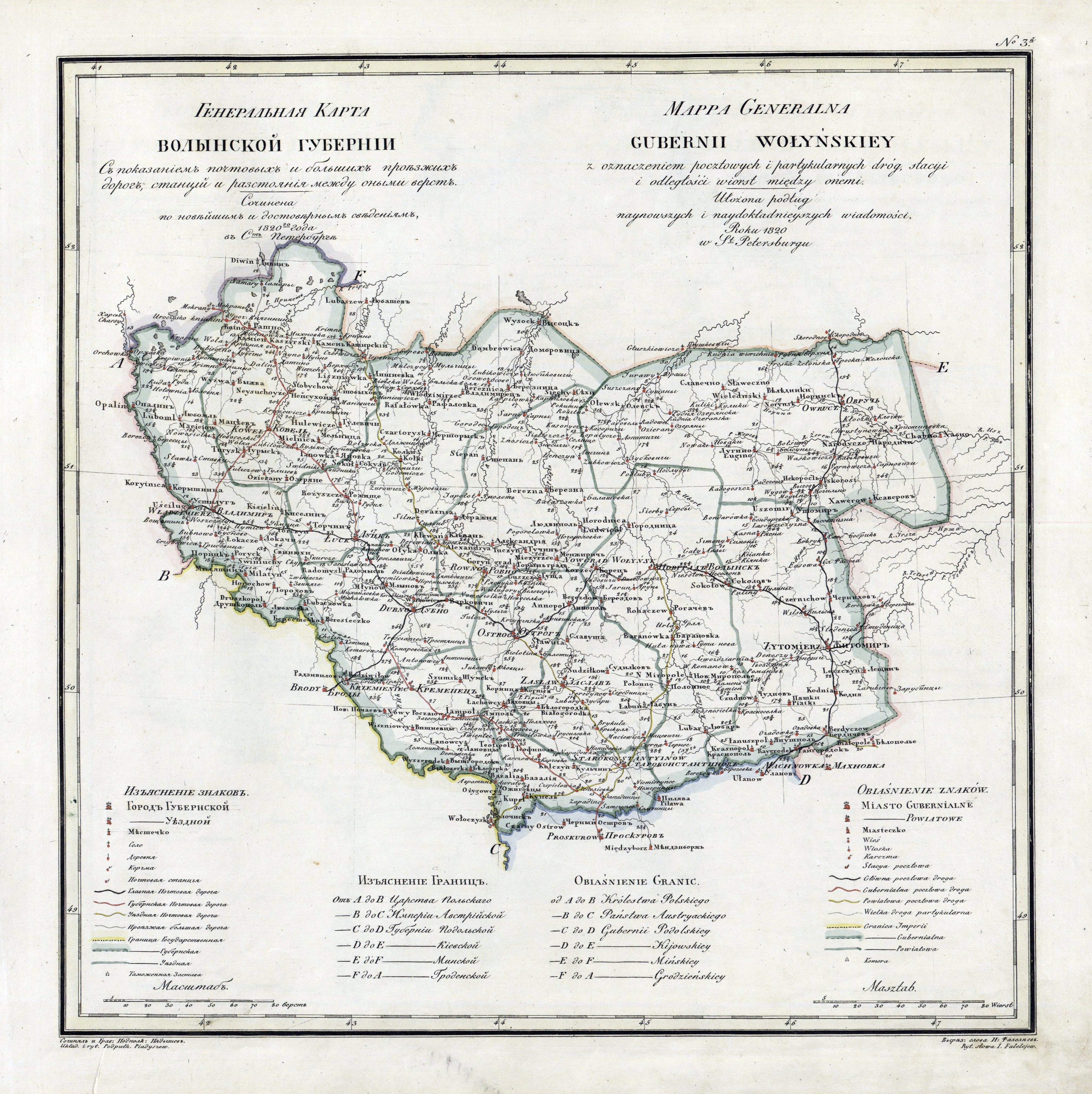 Volhynian governorate